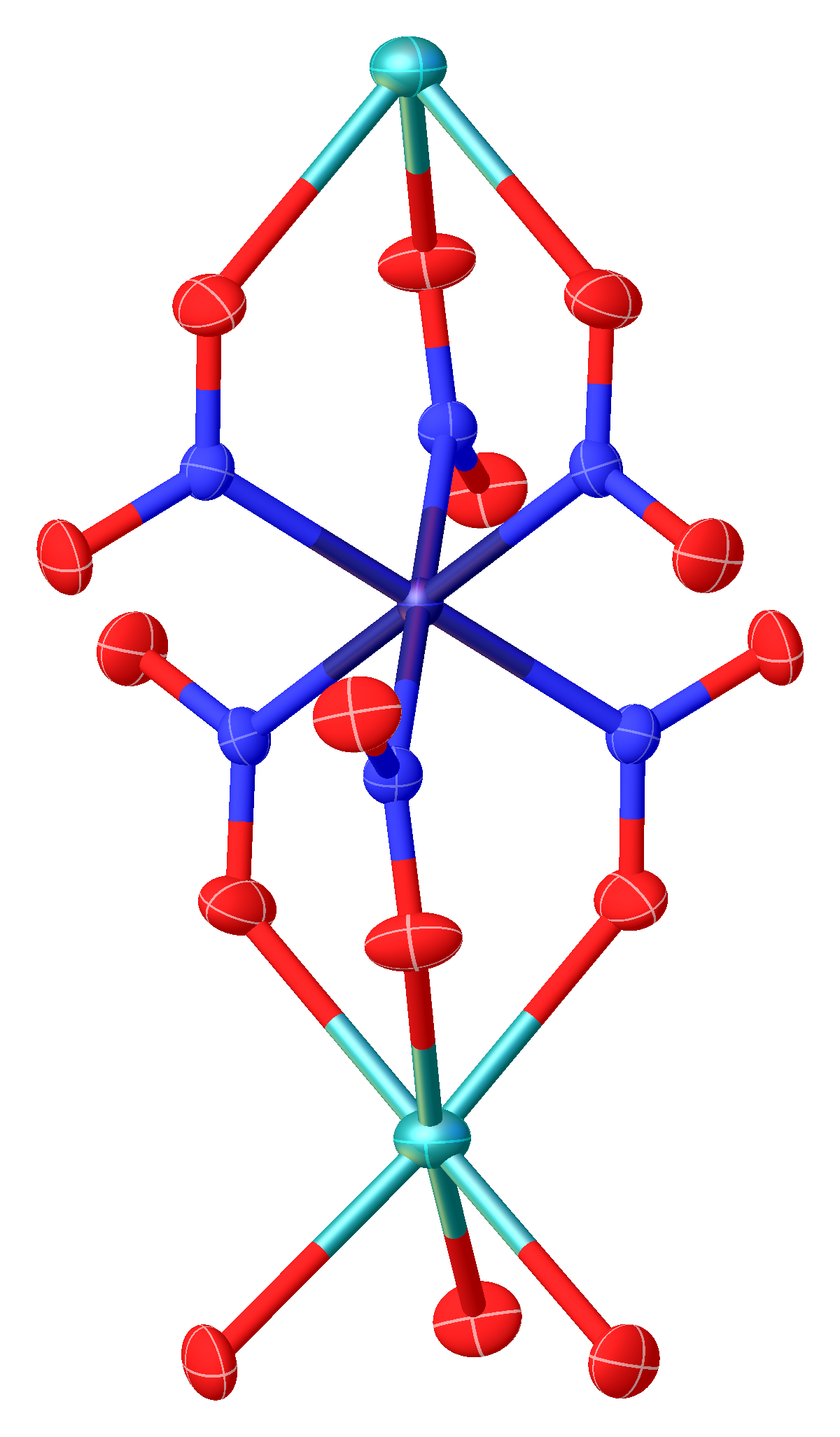 Fragment of the Na3Co(NO2)6 lattice, highlighting the CoN6 and NaO6 coordination spheres.